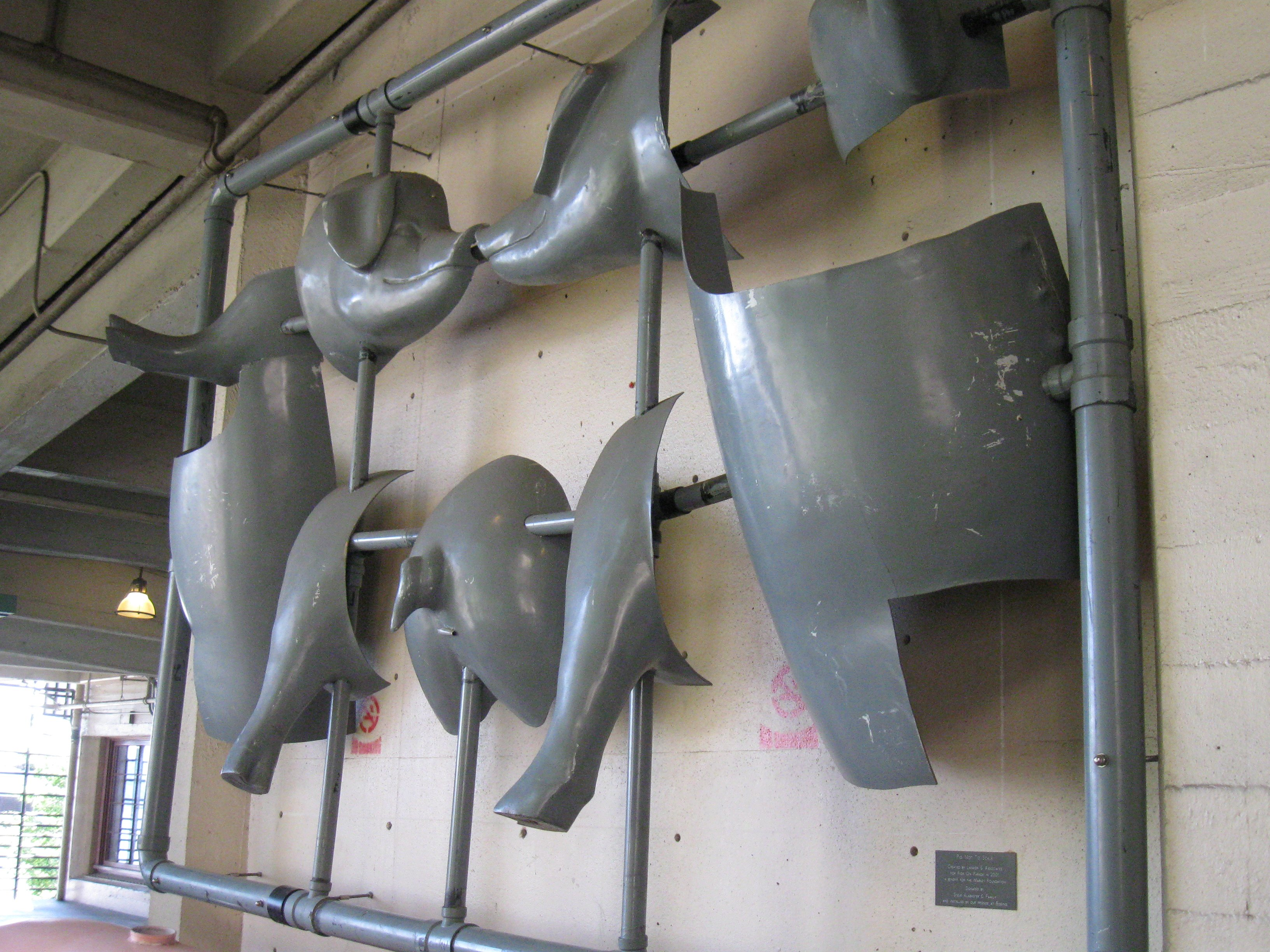 Pike Place Market